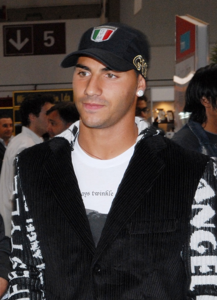 Ricardo Quaresma, Portuguese football (soccer) player, at Exponor